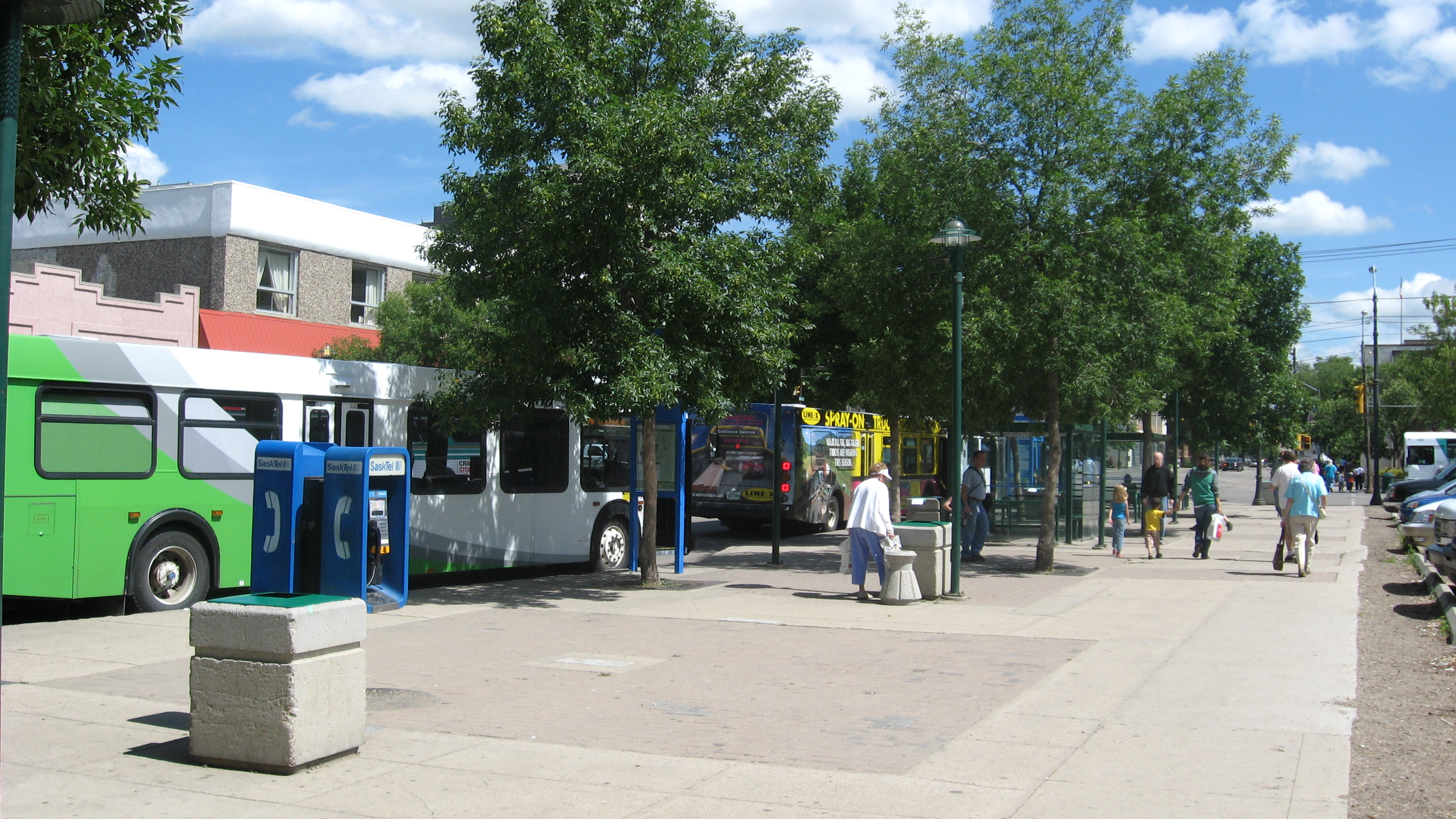 Saskatoon Transit System downtown terminal, looking toward Third Avenue